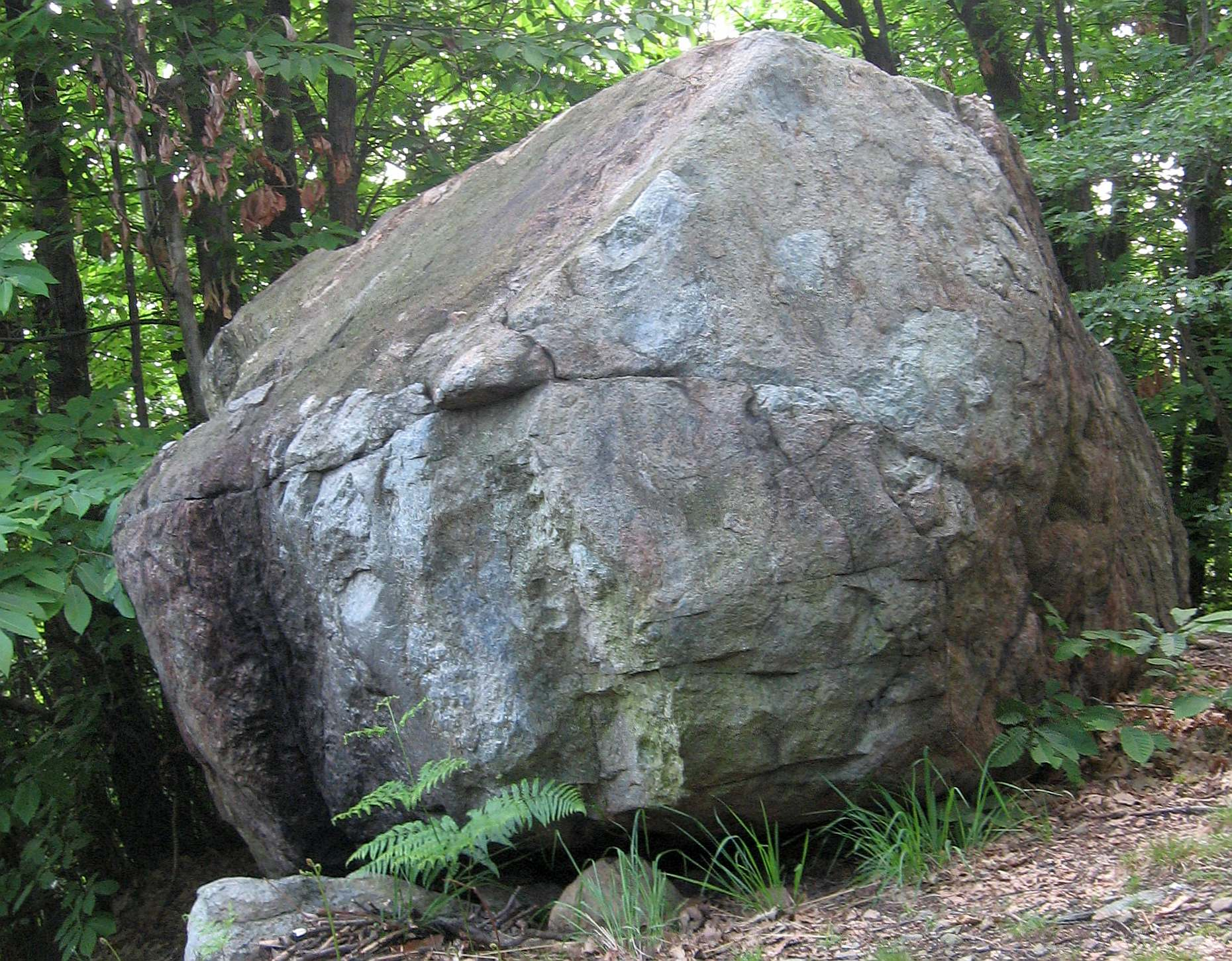 Serra di Ivrea (BI, TO - Italy): glacial erratic on Monte Orsetto